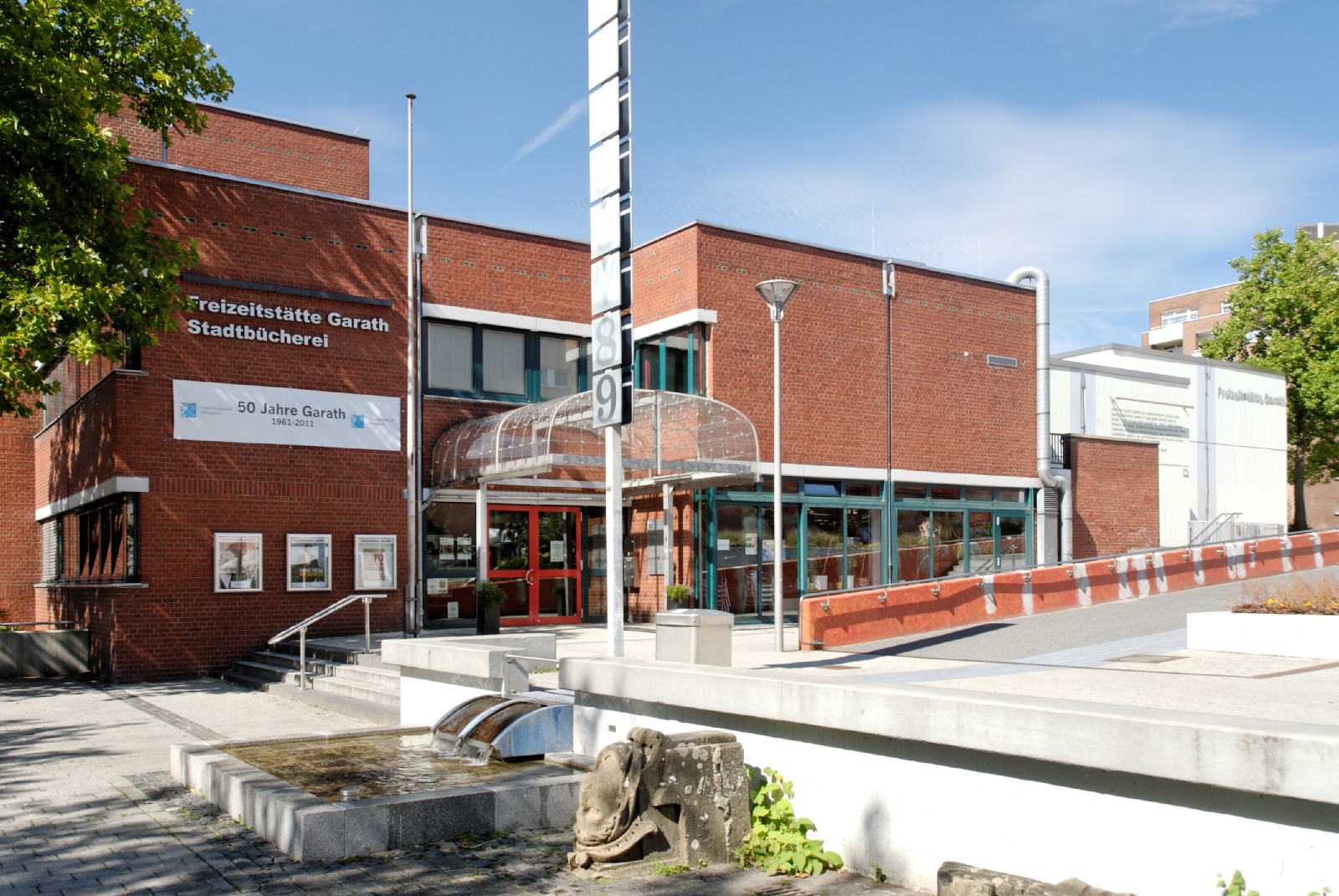 Building Fritz-Erler-Straße 21 in Düsseldorf-Garath, Germany